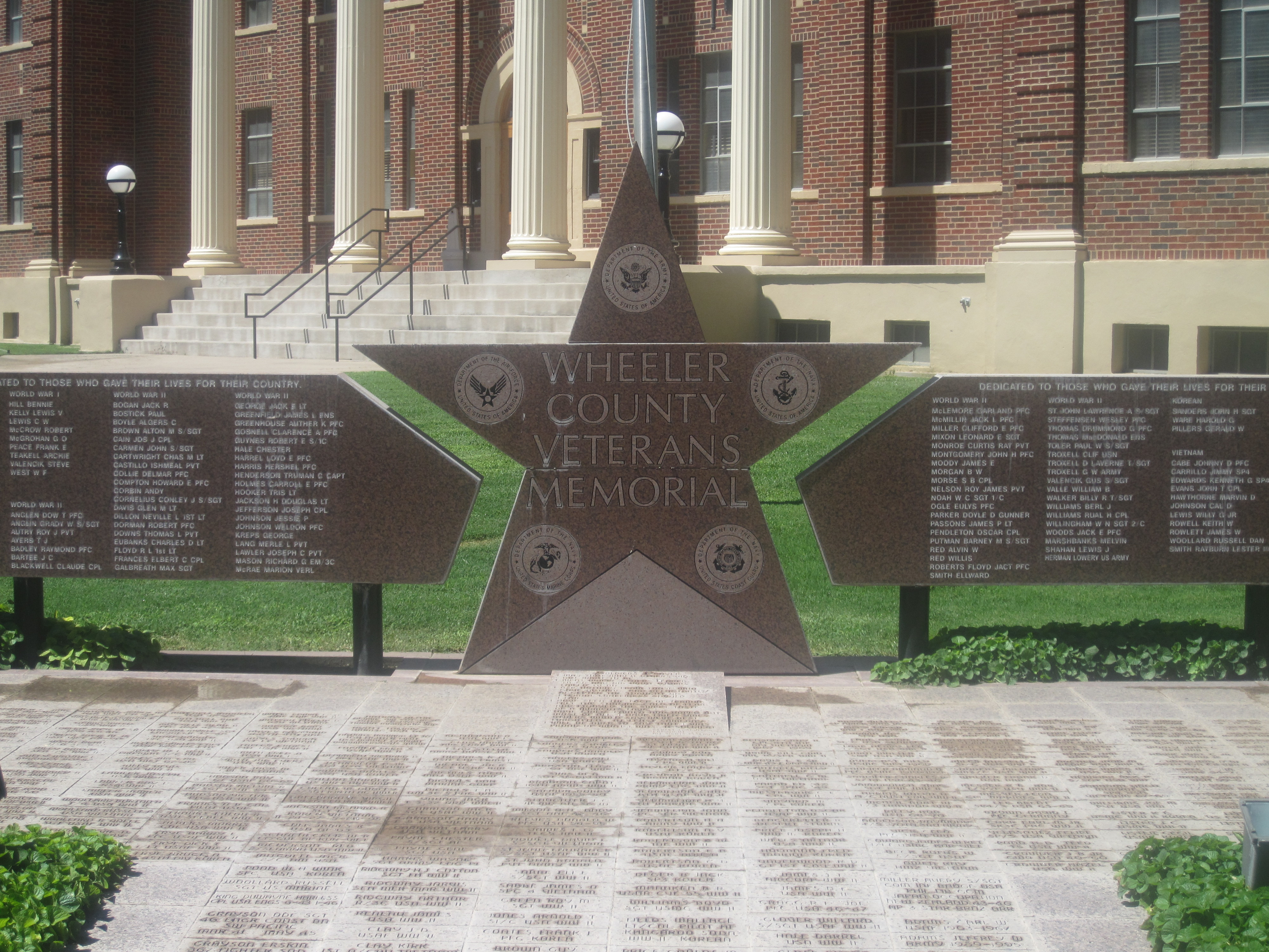 I took photo with Canon camera in Wheeler, TX.